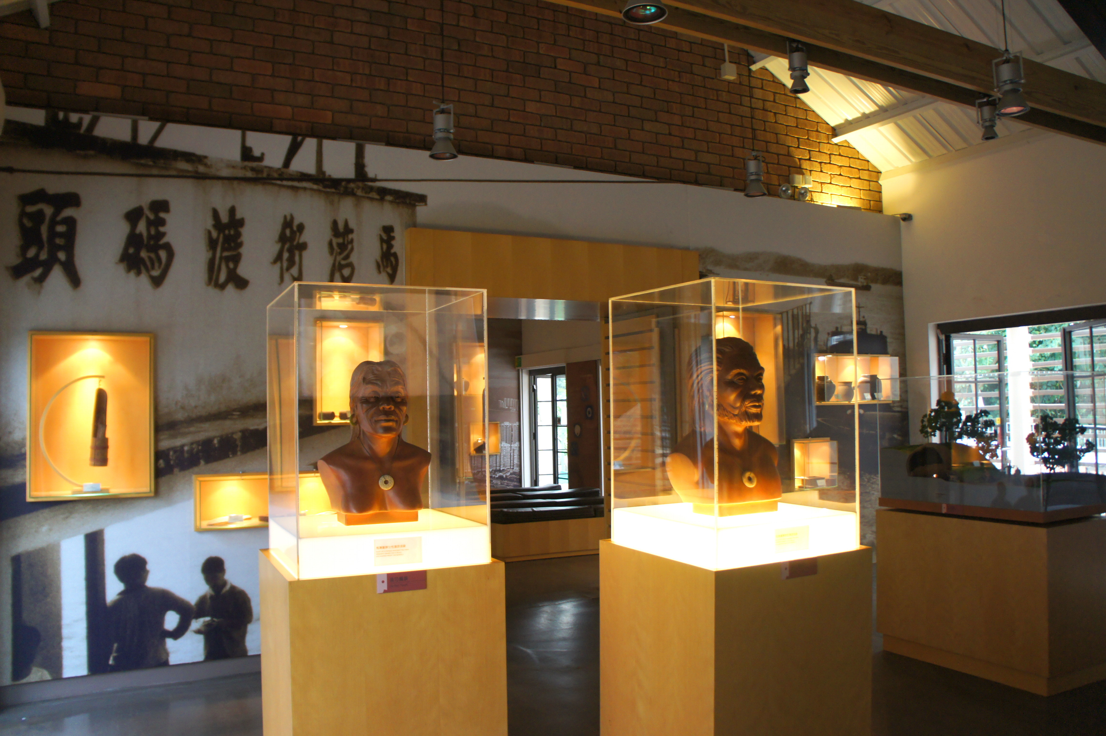 Exhibits in the Ma Wan Park Heritage Centre, Hong Kong.